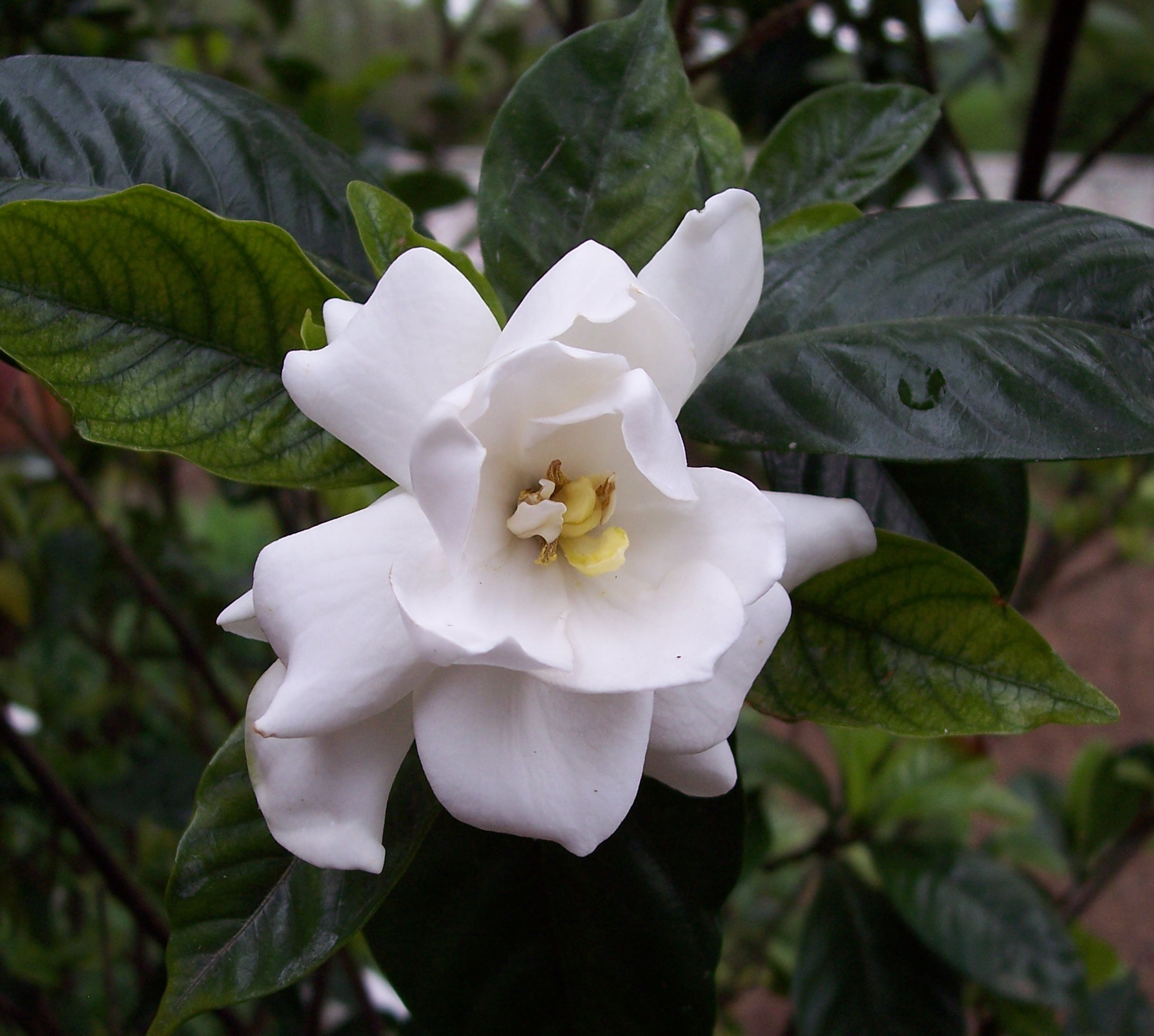 Gardenia flower from the gardens at Monticello